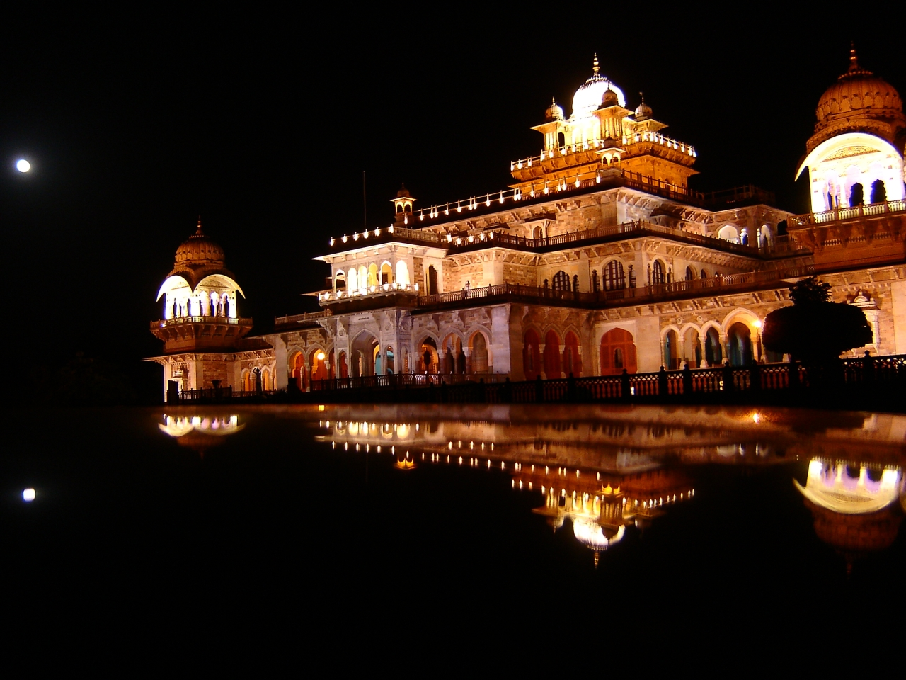 The moon and the palace.